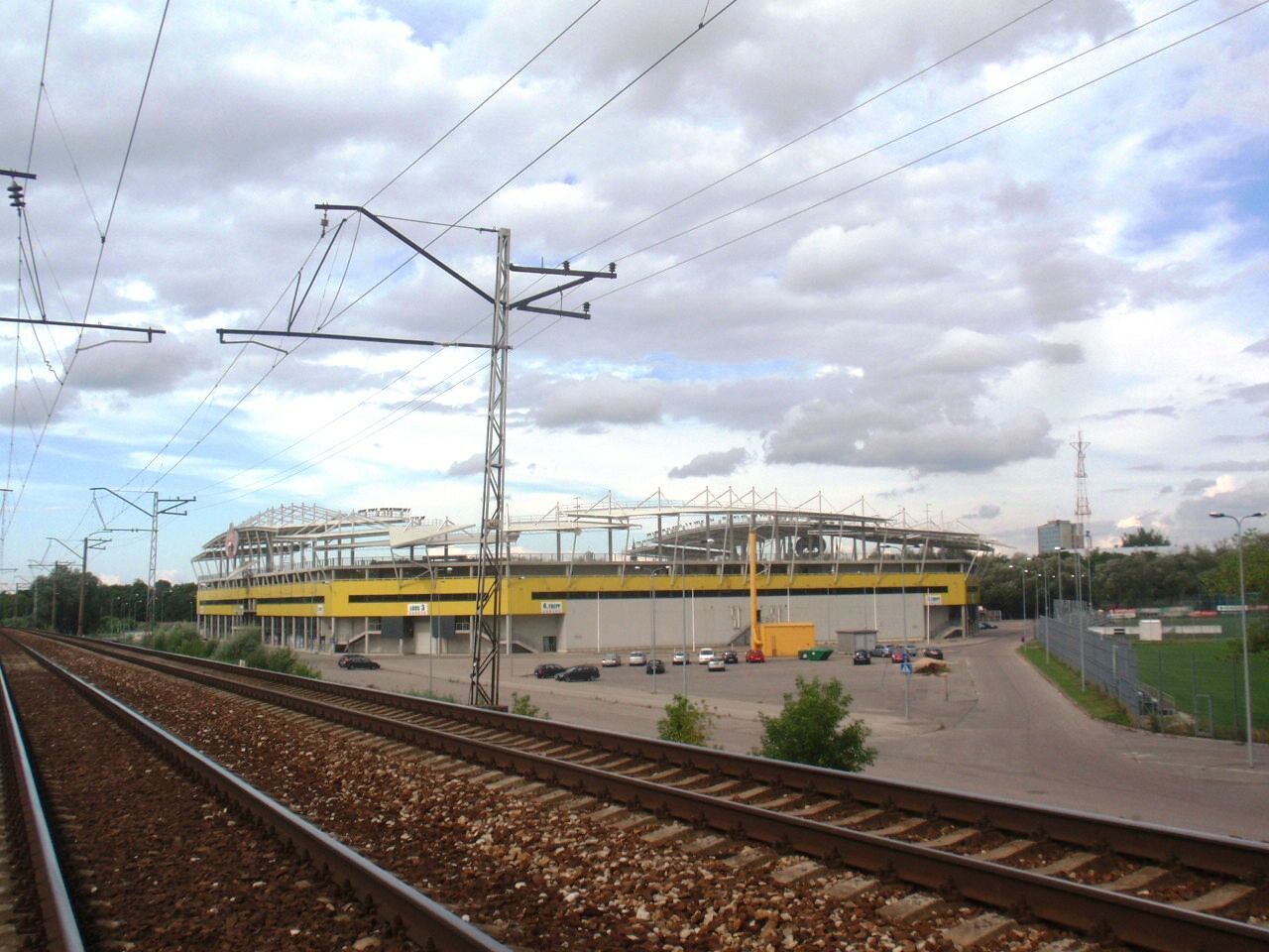 A. Le Coq Arena (Lilleküla Stadium) seen from the south.